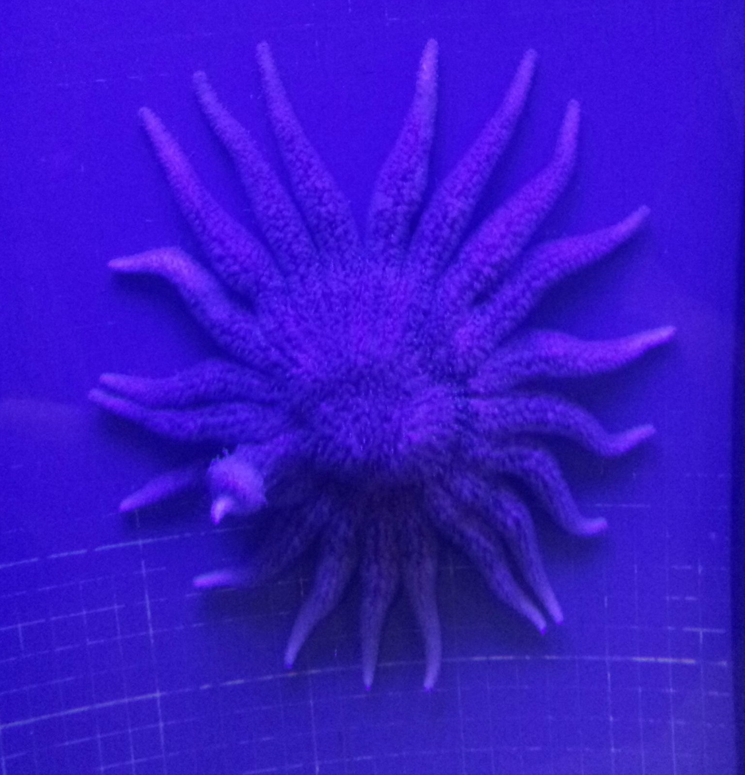 Photo of a sunflower seastar, taken at Long Marine Lab's Seymour Discovery Center in Santa Cruz, California